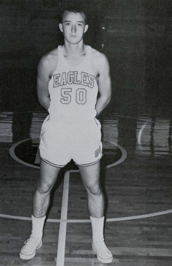 American college basketball player Harold Sergent of Morehead State College from the 1963 Morehead State student yearbook